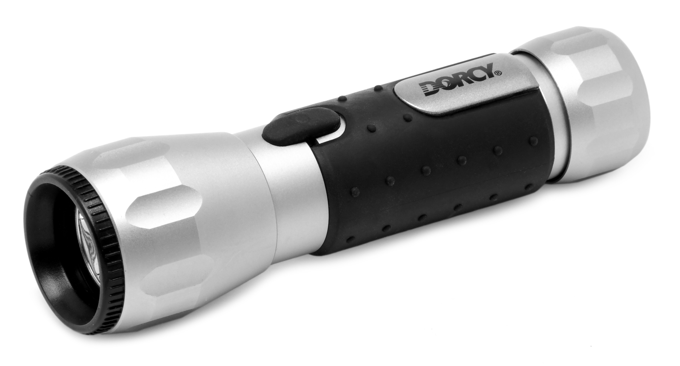 A high-power LED flashlight.